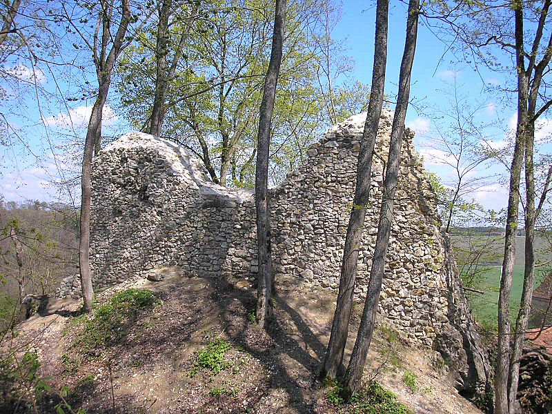 Burg Kaltenburg, ruins of Romanesque keep.